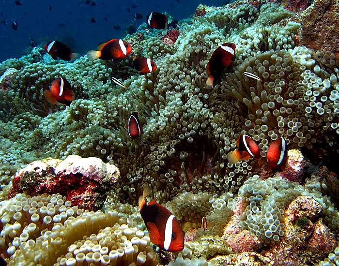 Colony of anemones (Entacmea quadricolor and resident anemonefish(Amphiprion melanopus).